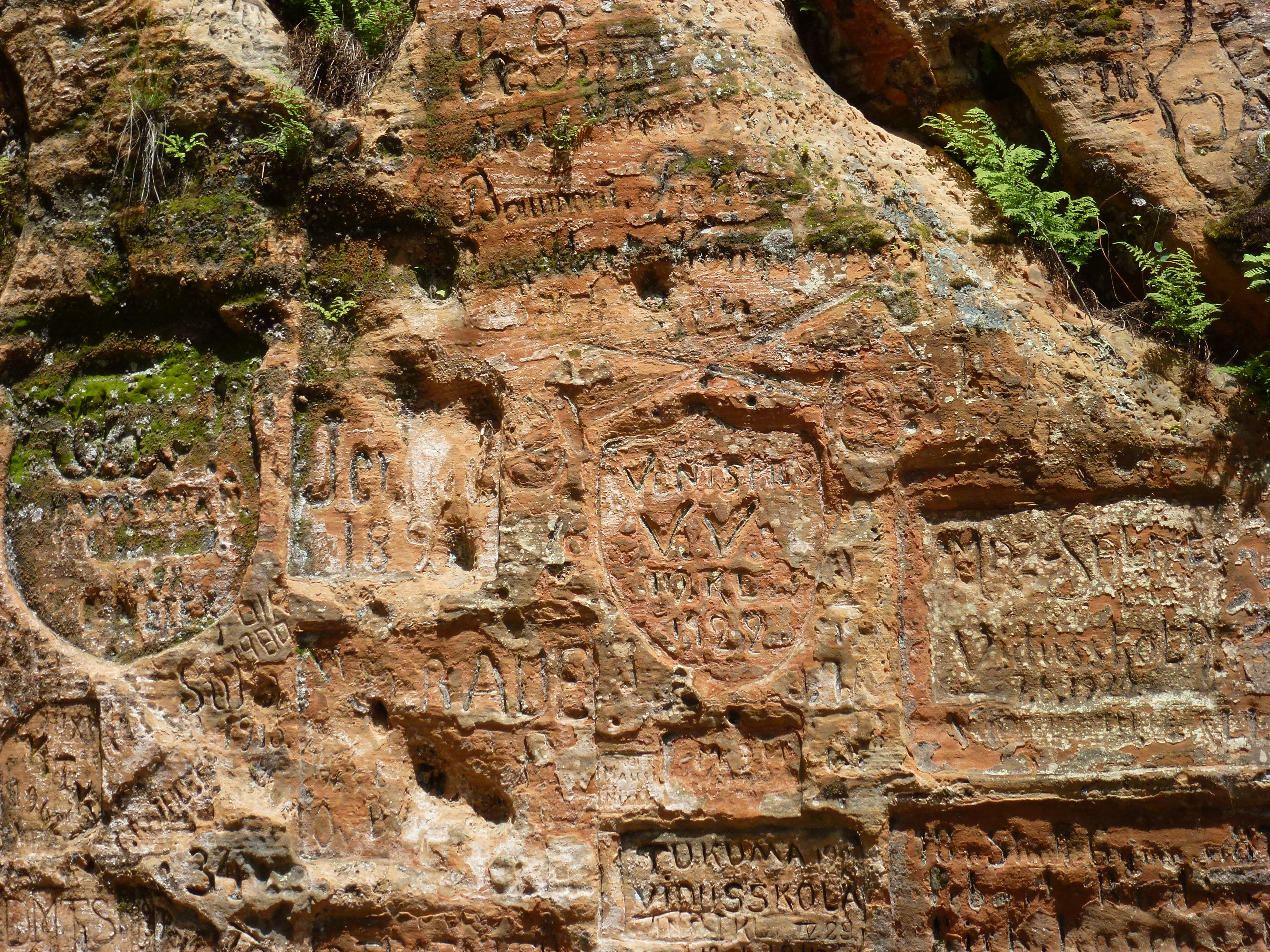 Coat of arms and compasses of Gutman cave in Sigulda — the largest natural cavern in Latvia